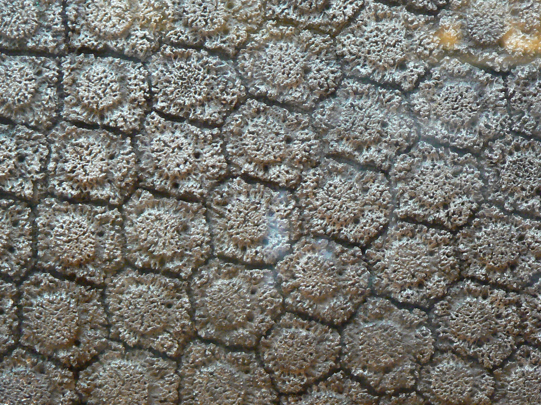 Glyptodon asper